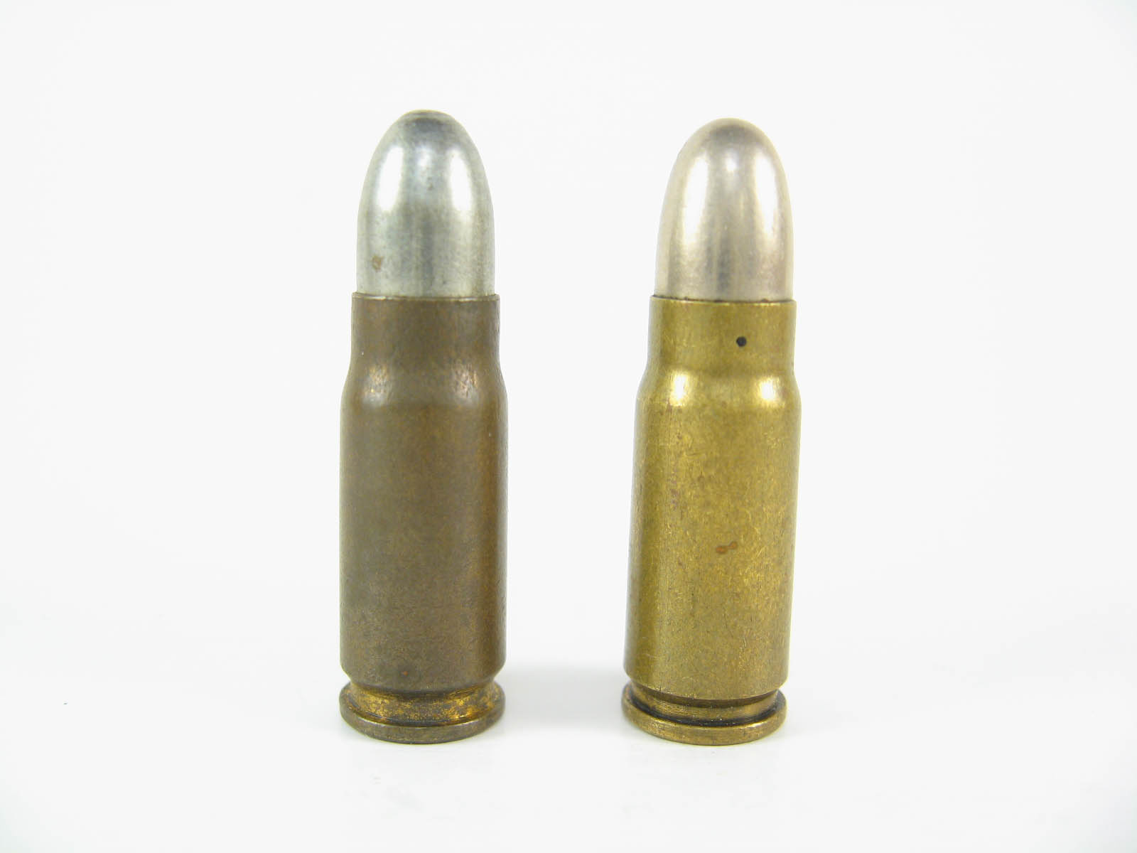 7.65x25mm Borchardt and 7.63x25mm Mauser. The Mauser cartridge has neck stab crimps to secure the bullet.